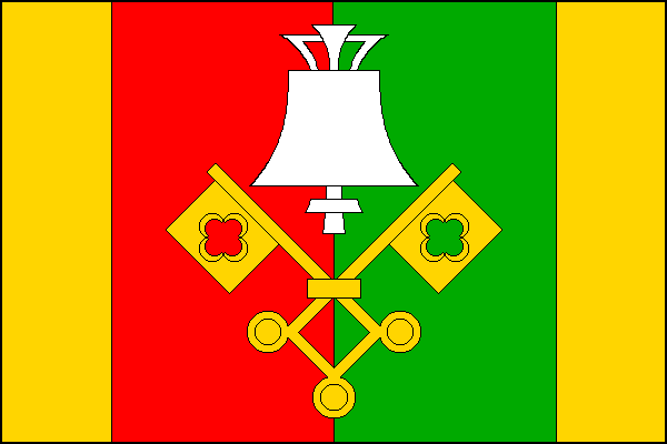 Municipal flag of Kalhov village, Jihlava District, Czech Republic.